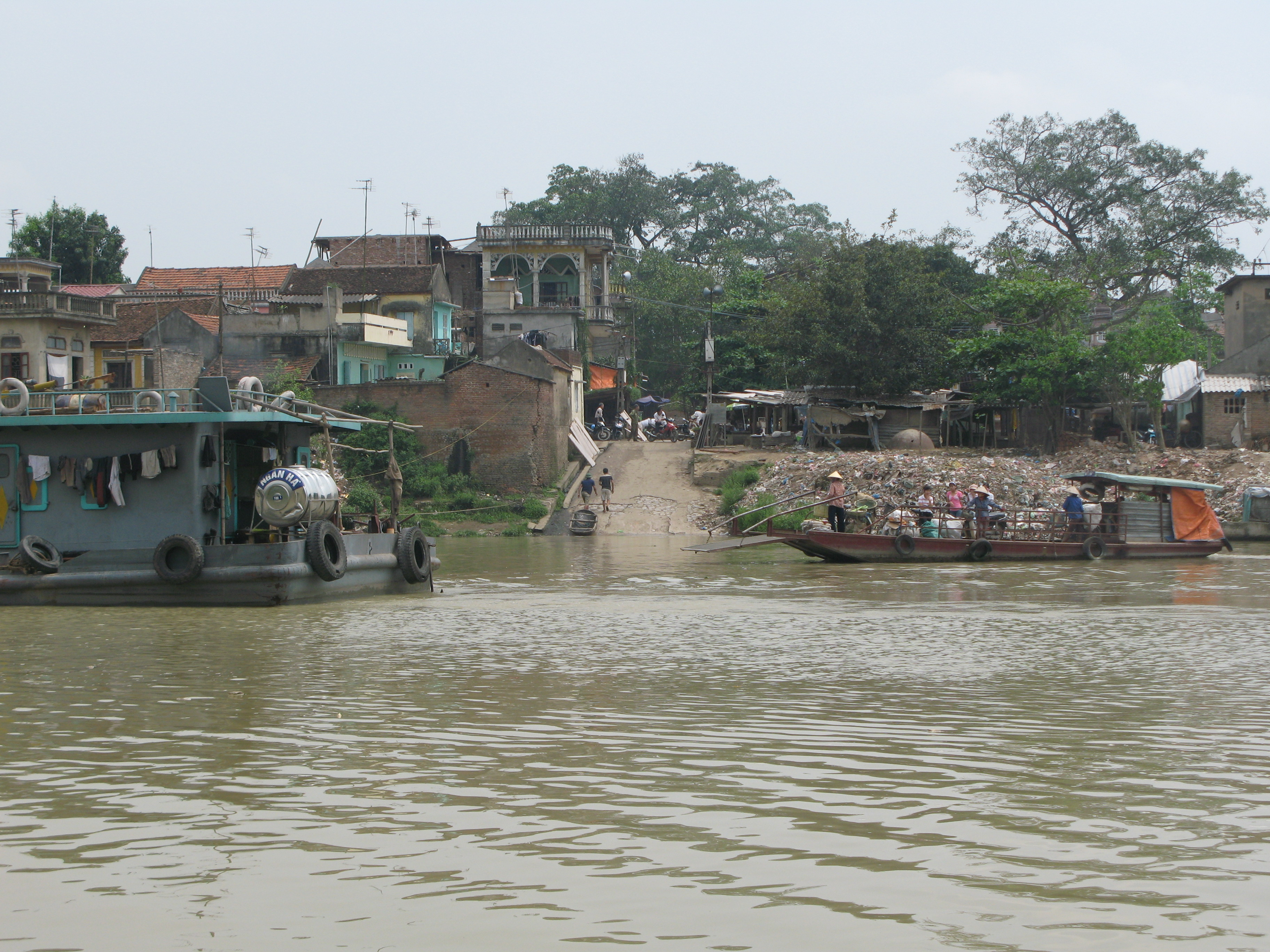 The main wharf of Tho Ha village, Van Ha commune, Viet Yen district, Bac Giang Province